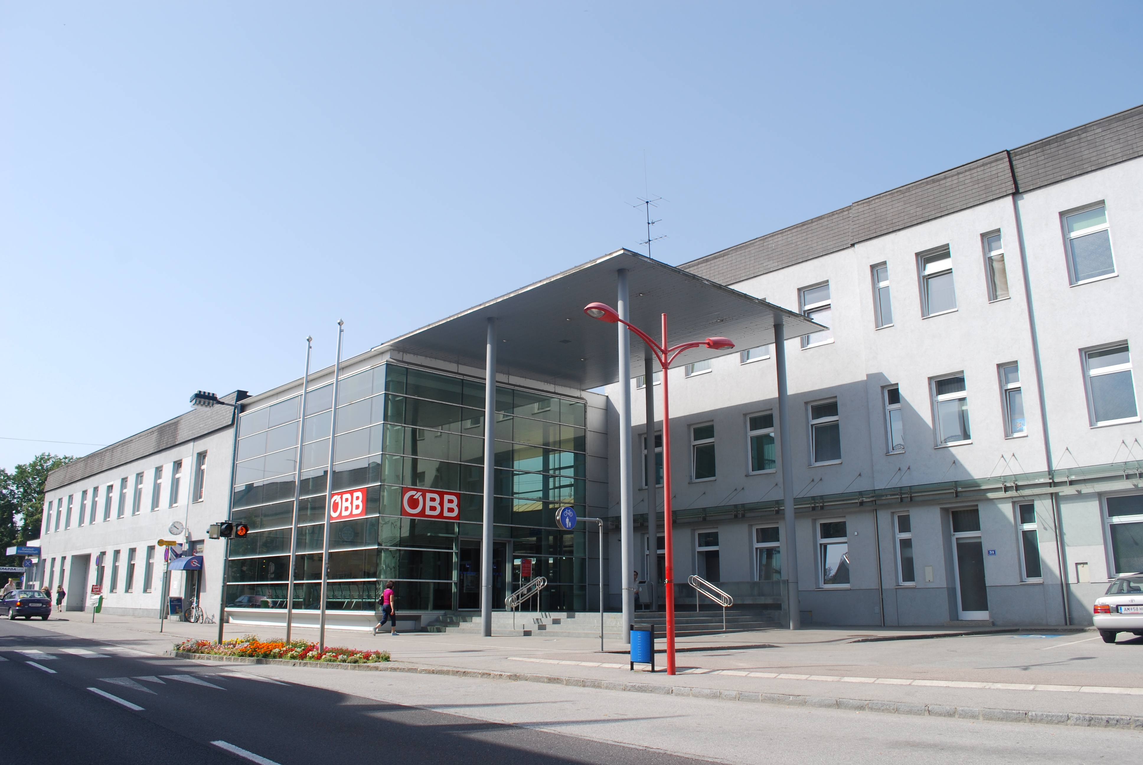 Trainstation St.Valentin